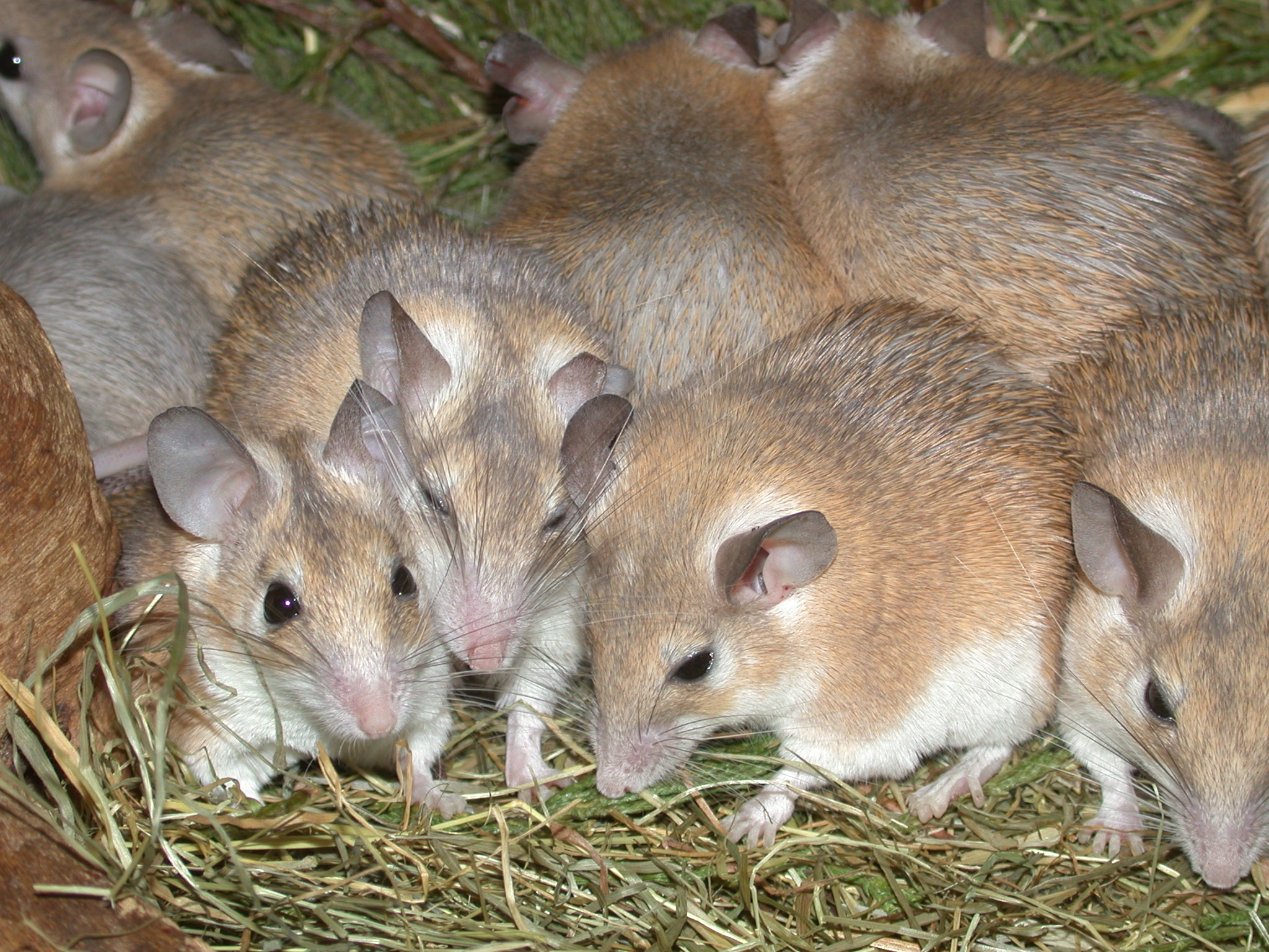 An Arabian Spiney Mouse at Birmingham Nature Centre in England. Used here